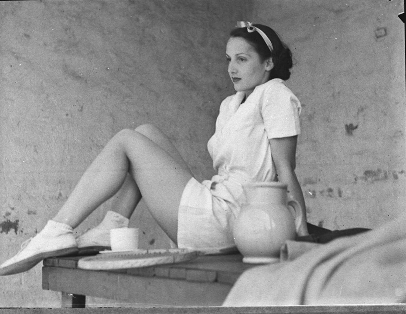 Call number: Home & Away 16088 Format: Photonegative Find more detailed information about this photograph: Search for more great images in the State Library's collections: .au/search/SimpleSearch.aspx From the collection of the State Library of New South Wales